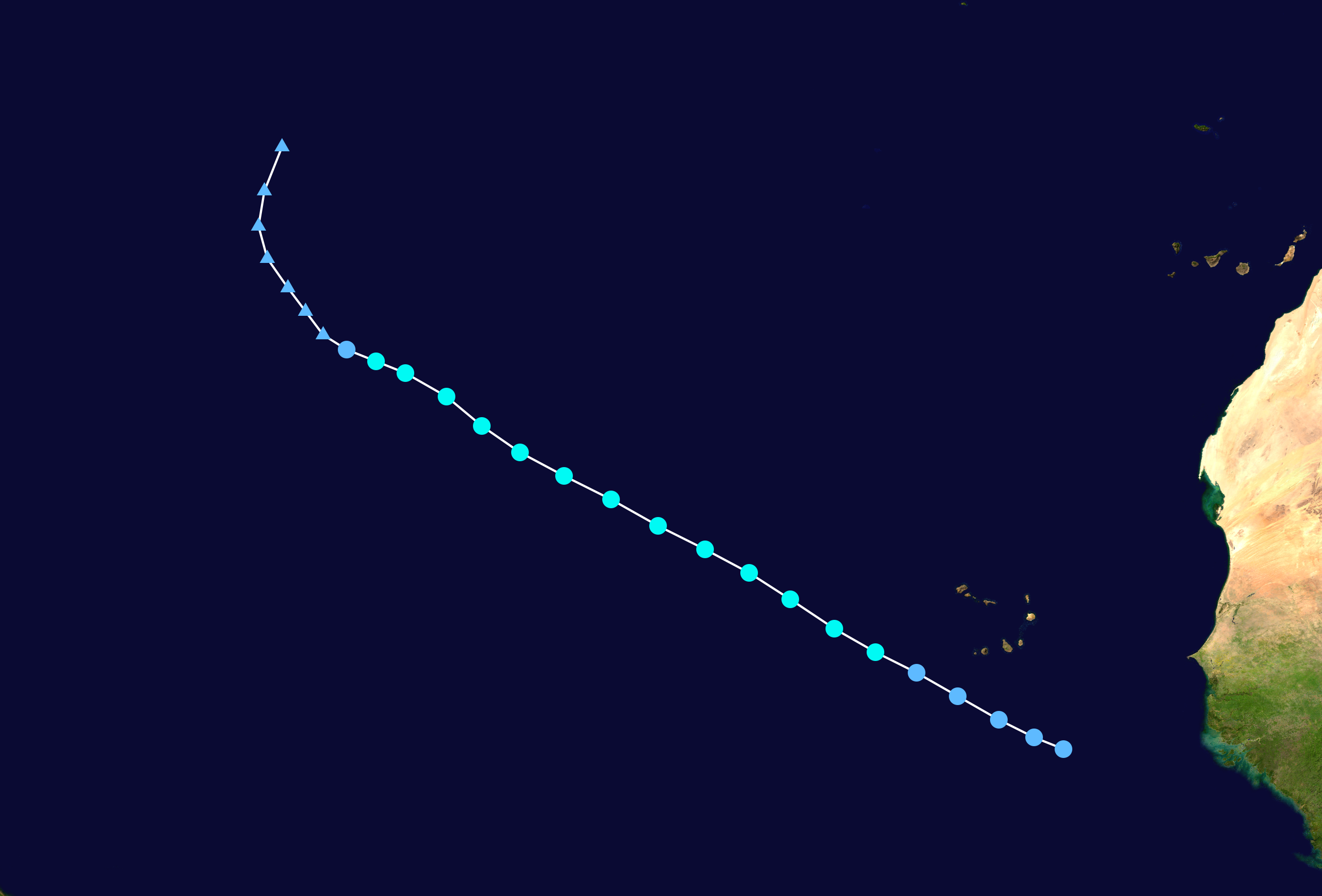 Track map of Tropical Storm Debby of the 2006 Atlantic hurricane season. The points show the location of the storm at 6-hour intervals. The colour represents the storm's maximum sustained wind speeds as classified in the Saffir–Simpson scale (see below), and the shape of the data points represent the nature of the storm, according to the legend below. Saffir–Simpson scale Tropical depression≤38 mph≤62 km/h Category 3111–129 mph178–208 km/h Tropical storm39–73 mph63–118 km/h Category 4130–156 mph209–251 km/h Category 174–95 mph119–153 km/h Category 5≥157 mph≥252 km/h Category 296–110 mph154–177 km/h Unknown Storm type Tropical cyclone Subtropical cyclone Extratropical cyclone / Remnant low / Tropical disturbance / Monsoon depression